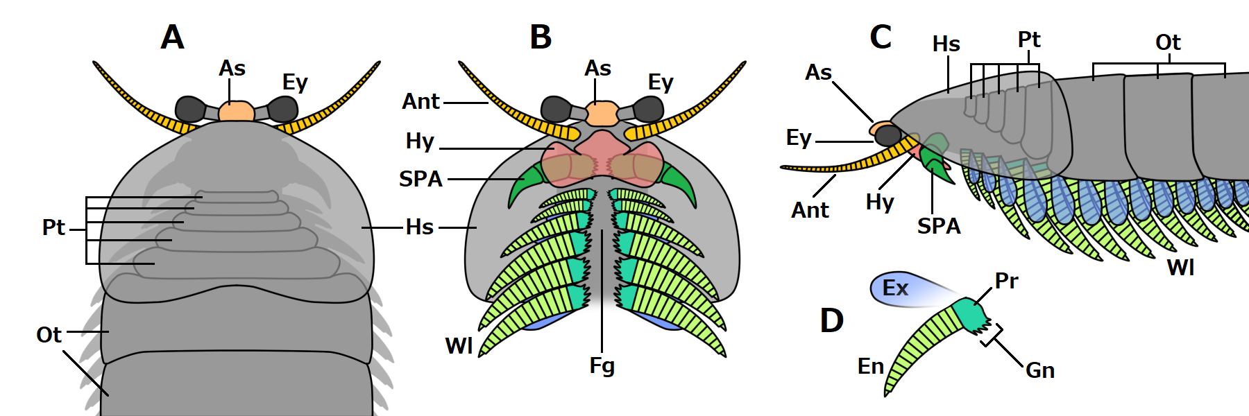 Anterior external morphology of a Fuxianhuiid genus Chengjiangocaris. A: 背面 Dorsal view B: 腹面 Ventral view（Opisthothoraxは省略される。Opisthothorax ommited.） C: 側面 Lateral view D, Wl: 脚 Walking leg As: Anterior sclerite Ey: 複眼 Compound eye Ant: 触角 Antenna Hy: ハイポストーマ Hypostome SPA: Specialized post-antennal appendage Hs: 背甲 Head shield/Carapace Pt: Prothoraxの背板 Prothoracic tergites/Reduced tergites Ot: Opisthothoraxの背板 Opisthothoracic tergites/Thoracic tergites Fg: Food groove Pr: 原節 Protopodite Gn: 顎基/内葉 Gnathobase/Endite Ex: 外肢/外葉 Exopodite/Exite En: 内肢 Endopodite 注釈 Note: 外肢の接続様式は推測的である。The attachment pattern of exopodite is conjectural. References 参考文献: Early Cambrian fuxianhuiids from China reveal origin of the gnathobasic protopodite in euarthropods (February 2018) A redescription of Liangwangshania biloba Chen, 2005, from the Chengjiang biota (Cambrian, China), with a discussion of possible sexual dimorphism in fuxianhuiid arthropods (August 2018)